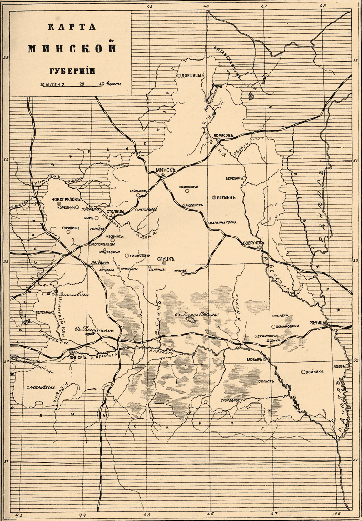 Illustration from Brockhaus and Efron Jewish Encyclopedia (1906—1913); Russian Imperial Governorate of Minsk